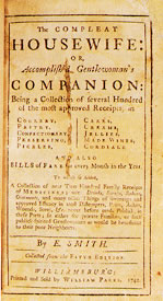 Title Page of The Compleat Housewife